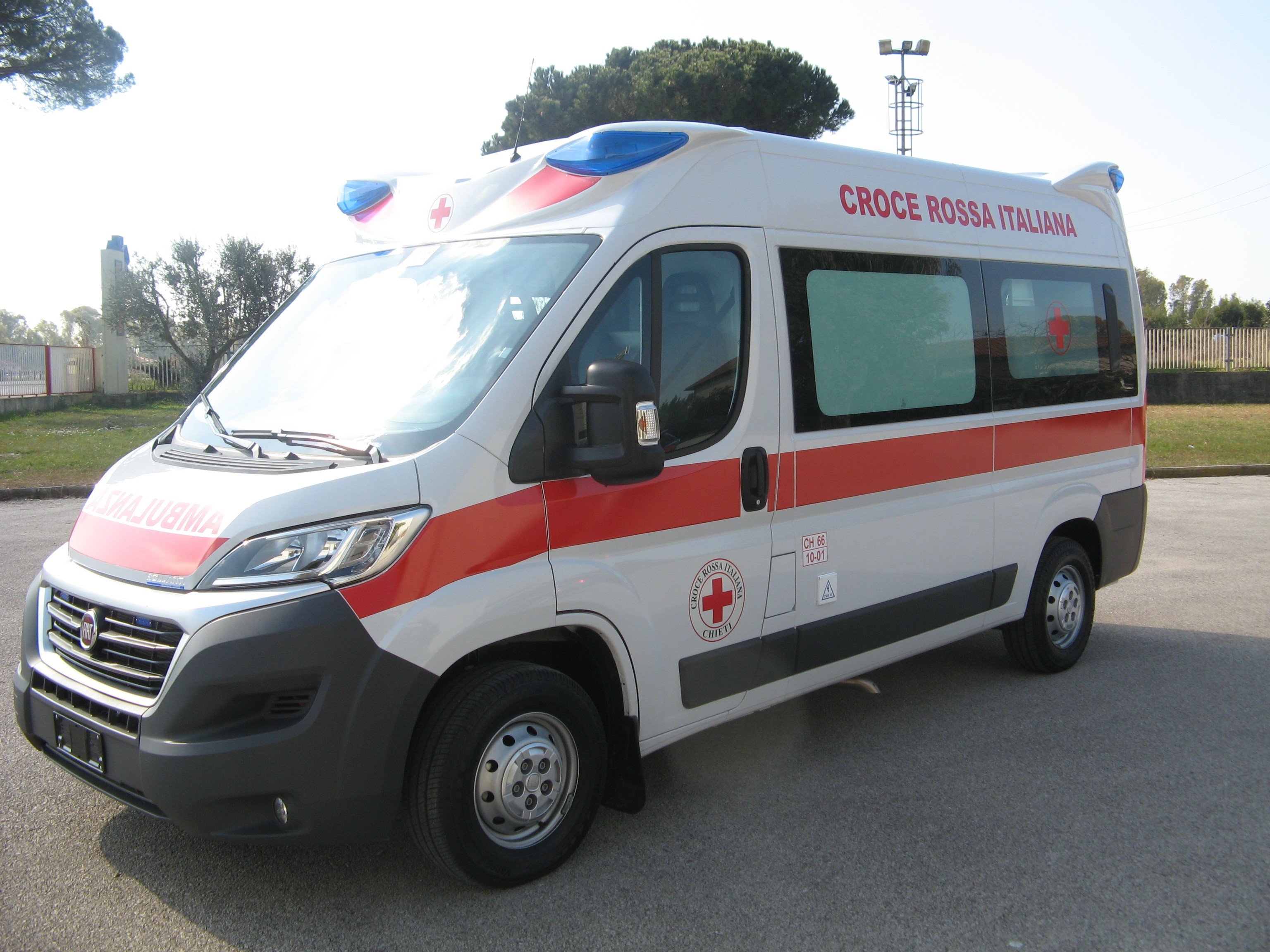 Ambulance Fiat Ducato 2015 built by Bollanti Healthcare Vehicles